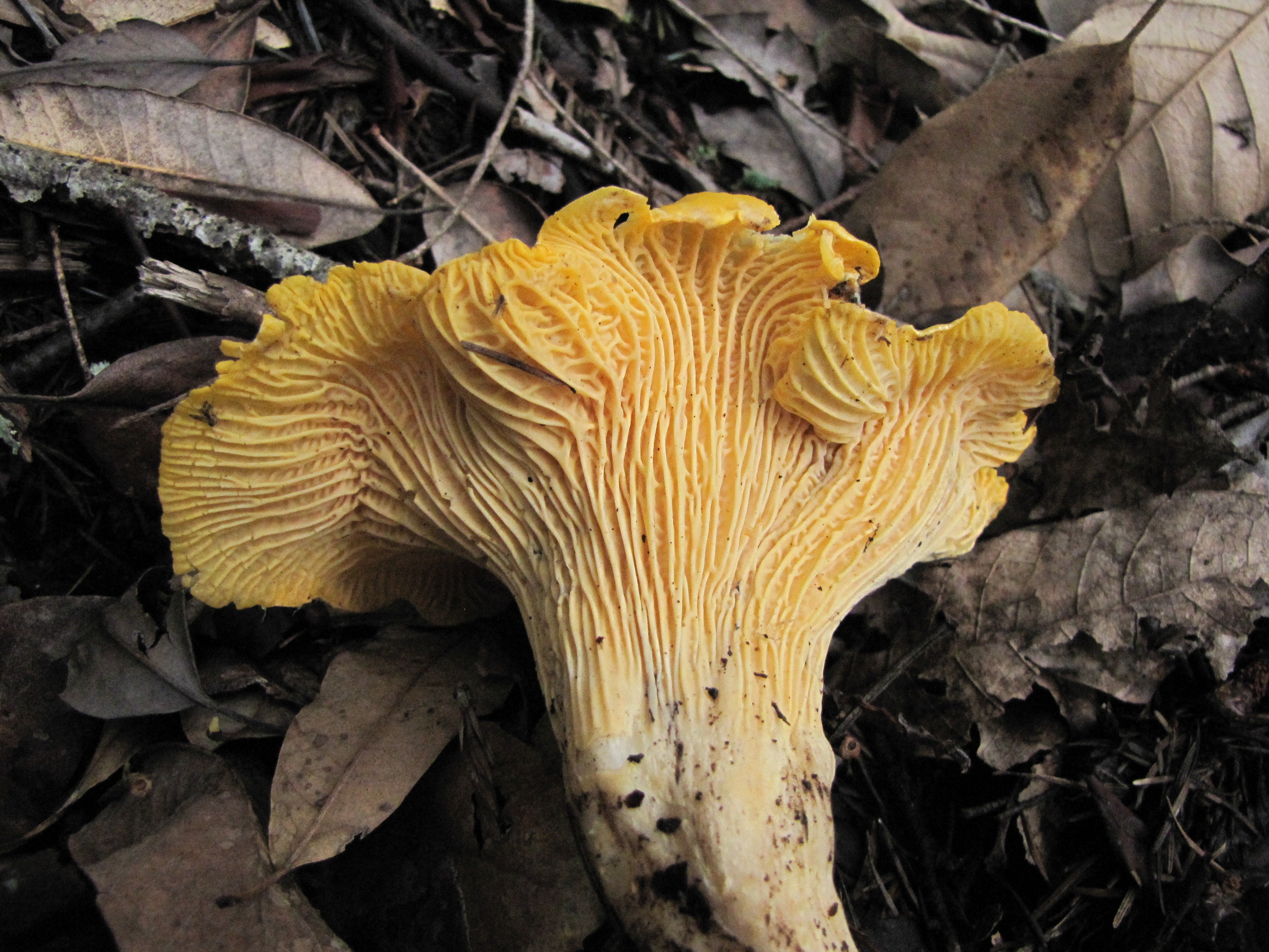 Cantharellus californicus Arora & Dunham Location: Soquel Demonstration Forest, Santa Cruz Co., California, USA Observation Notes: Growing near tan oak and madrone. No live oaks around. For more information about this, see the observation page at Mushroom Observer.